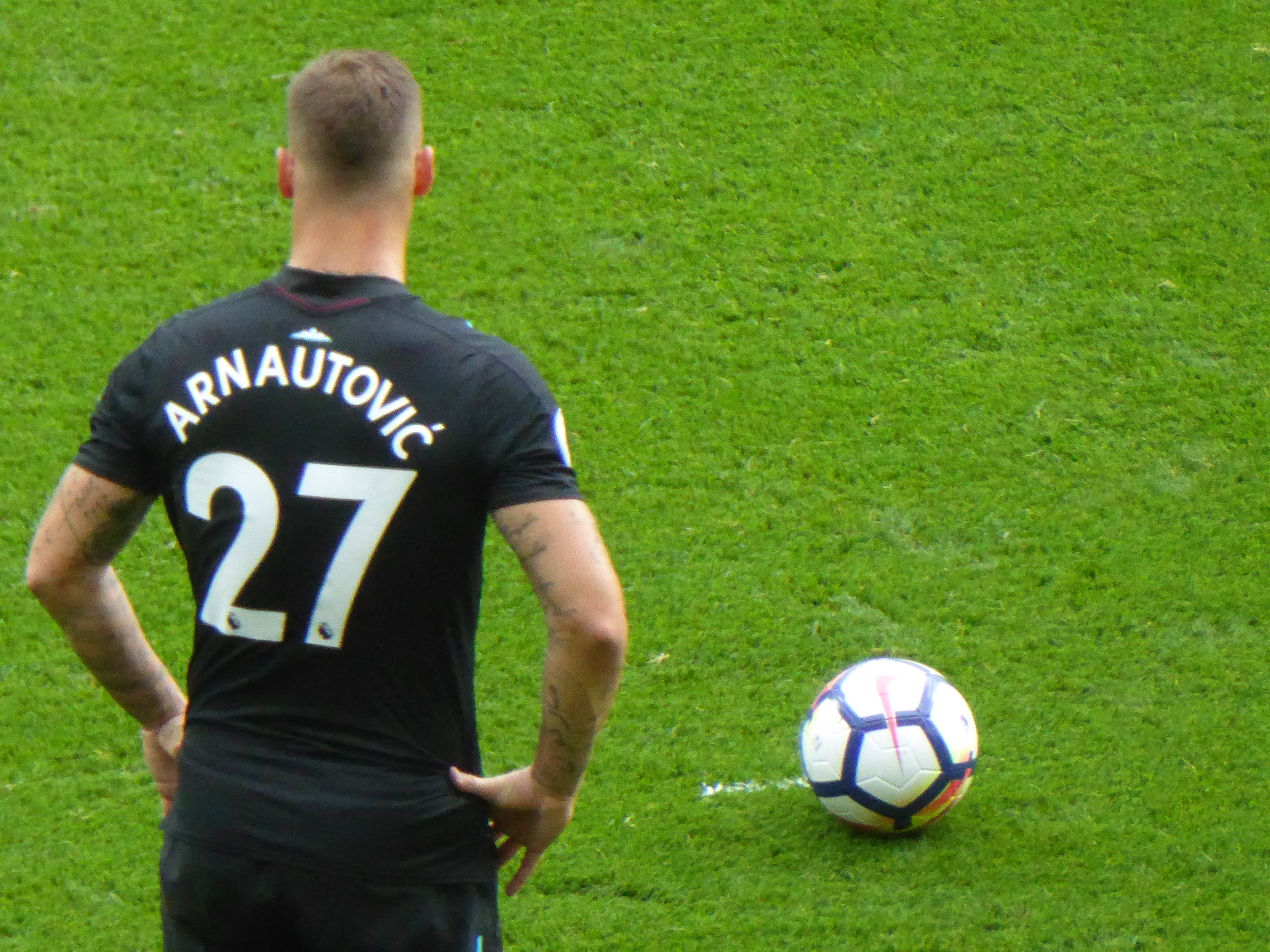 Manchester United v West Ham United (4-0), Premier League, Old Trafford, Manchester, Greater Manchester, England, 13 August 2017